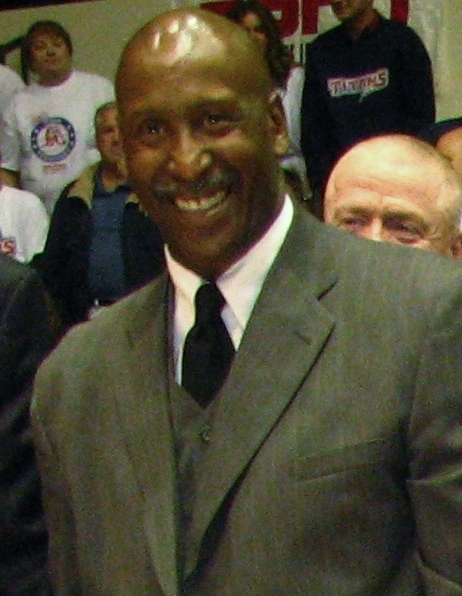 Former University of Detroit Mercy and NBA basketball player Terry Tyler at the dedication of Dick Vitale Court at the University of Detroit in 2011